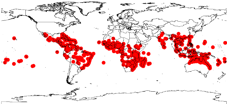 Abrus precatorius occurrence data downloaded from GBIF, 1 July 2019.